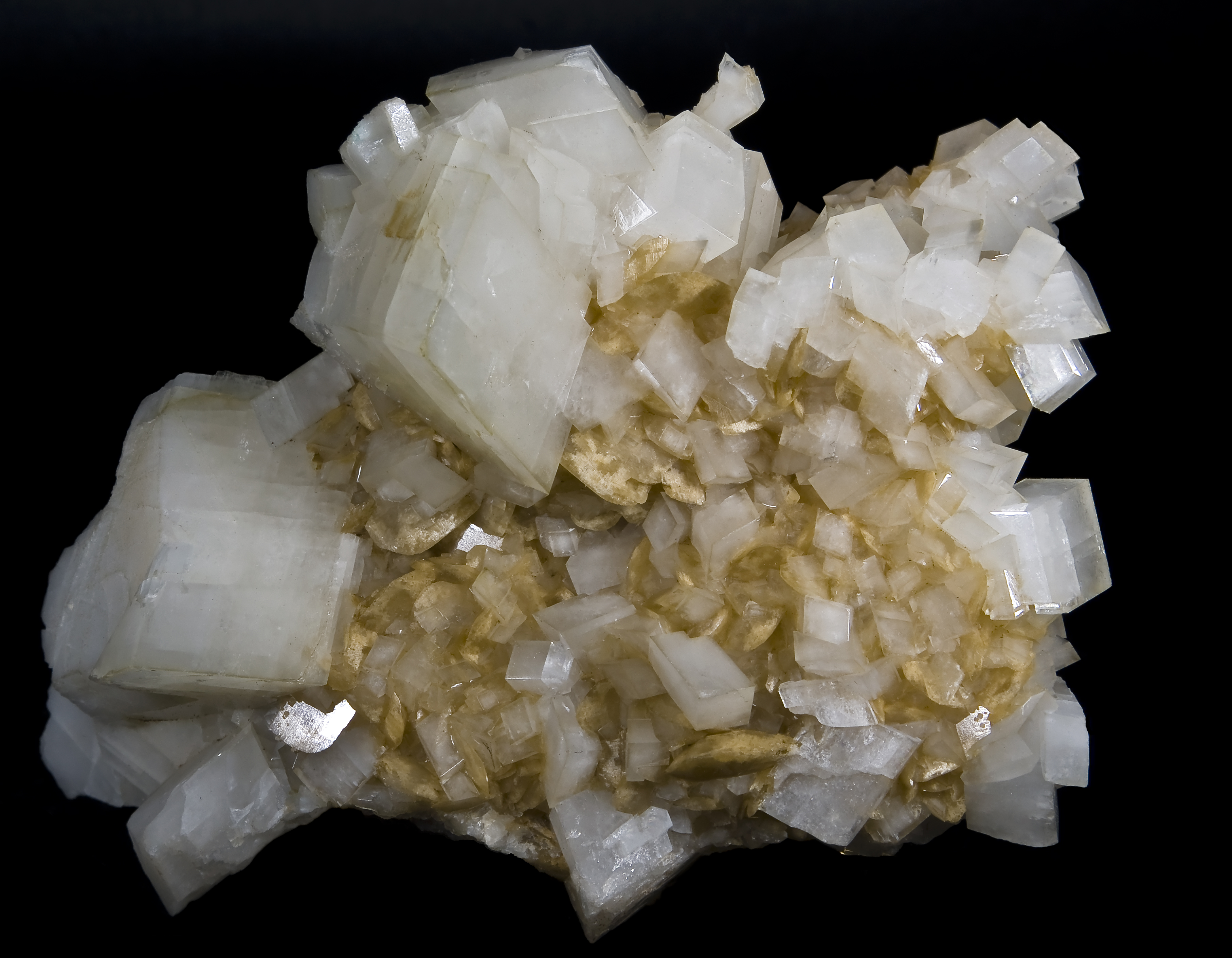 Dolomite and magnesite - Azcárate Quarry, Eugui, Esteribar, Navarre, Spain - (10.2x6.7cm). Studio work.